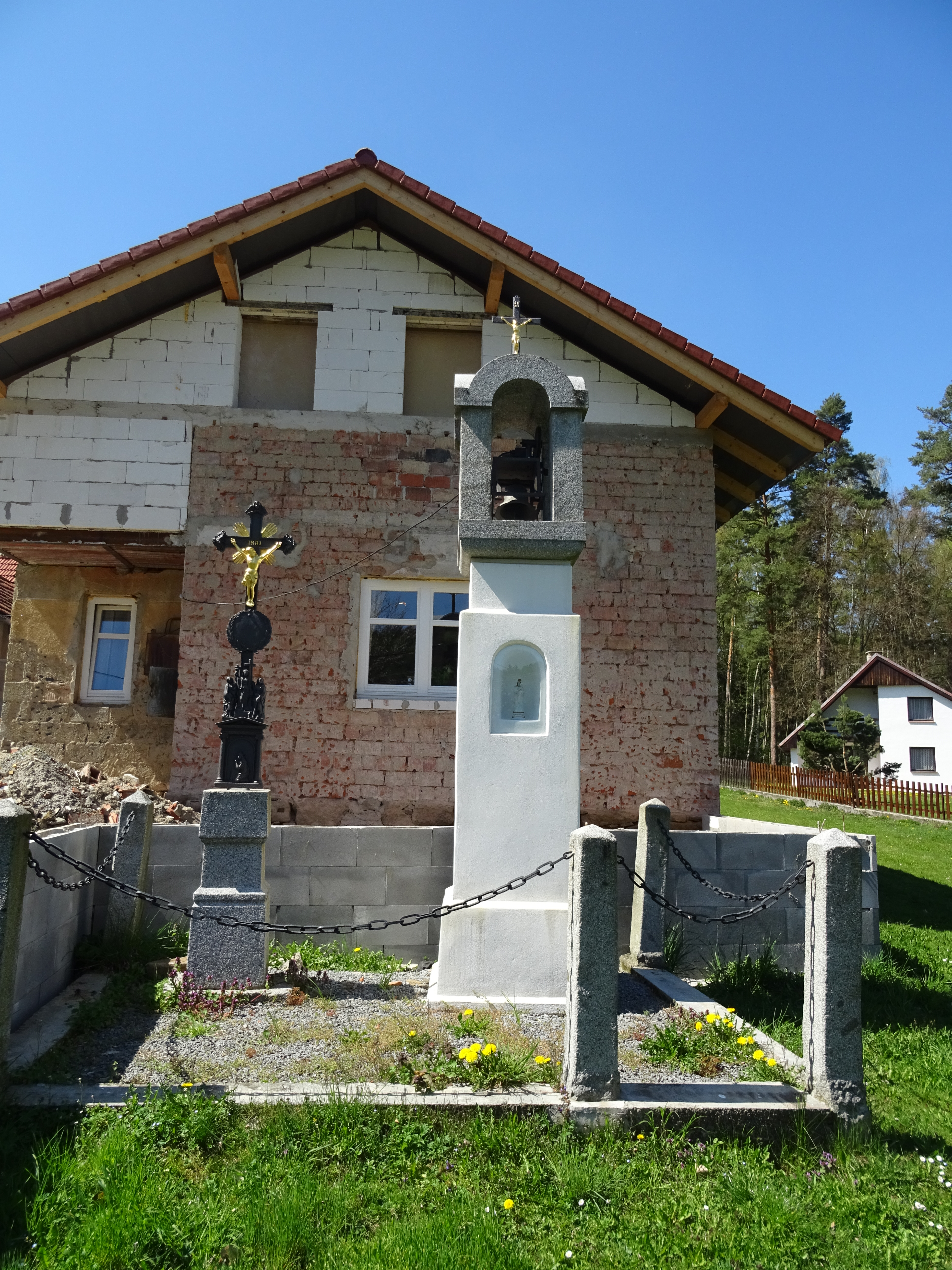 This photograph was created as a part of Wikiexpedition Mladá Vožice, a project supported by Wikimedia Foundation grant.